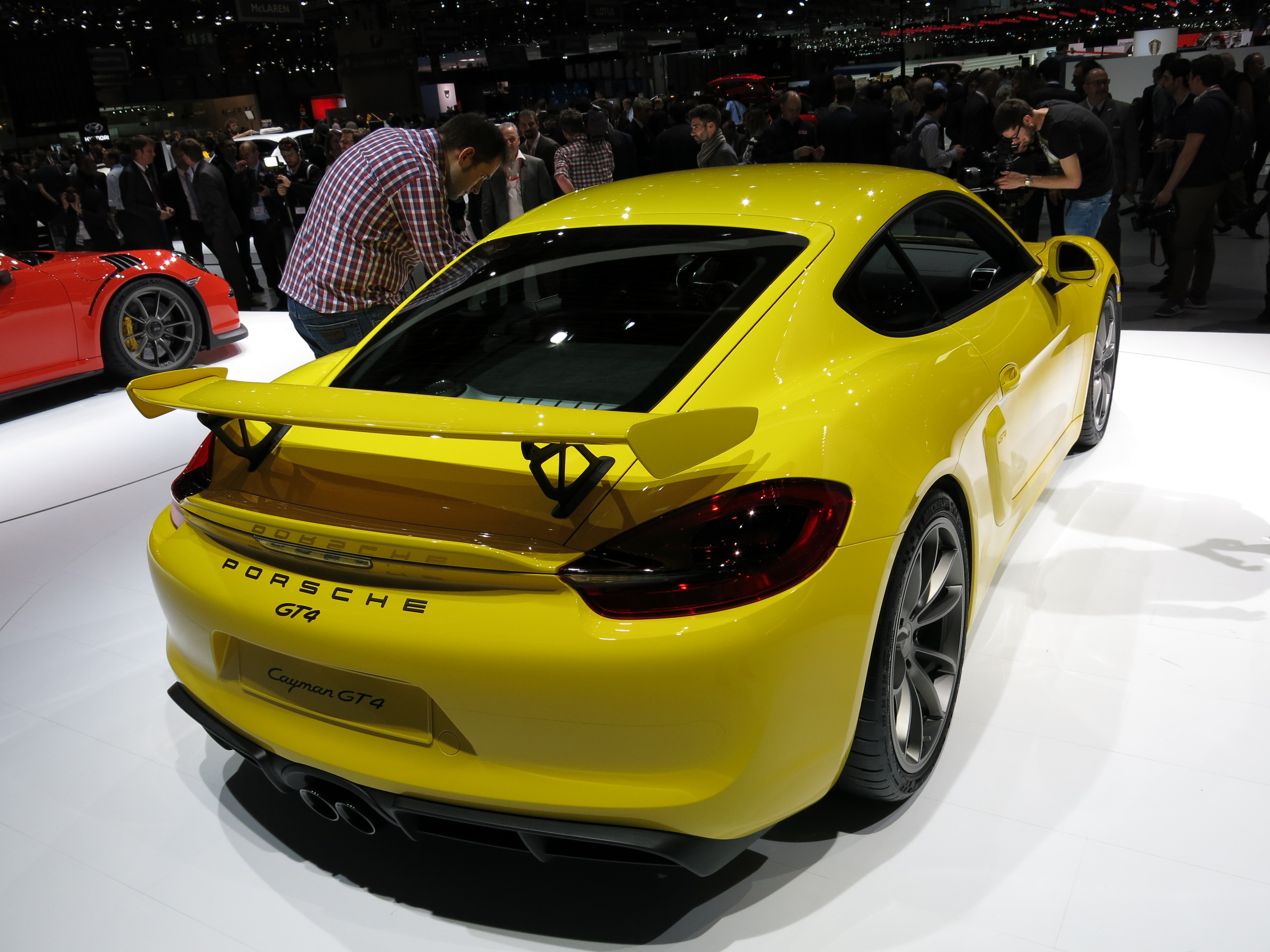 Geneva Motor Show 2015 (photo taken on the first press day)